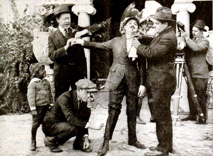 Still from the production of the American comedy film Peggy Does Her Darndest (1919) with May Allison in men's clothing and goatee, director George D. Baker, and assistant director Charles Hundt adjusting the tie, while Ernie Morrison looks on. On page 9 of the April 1919 Film Fun.